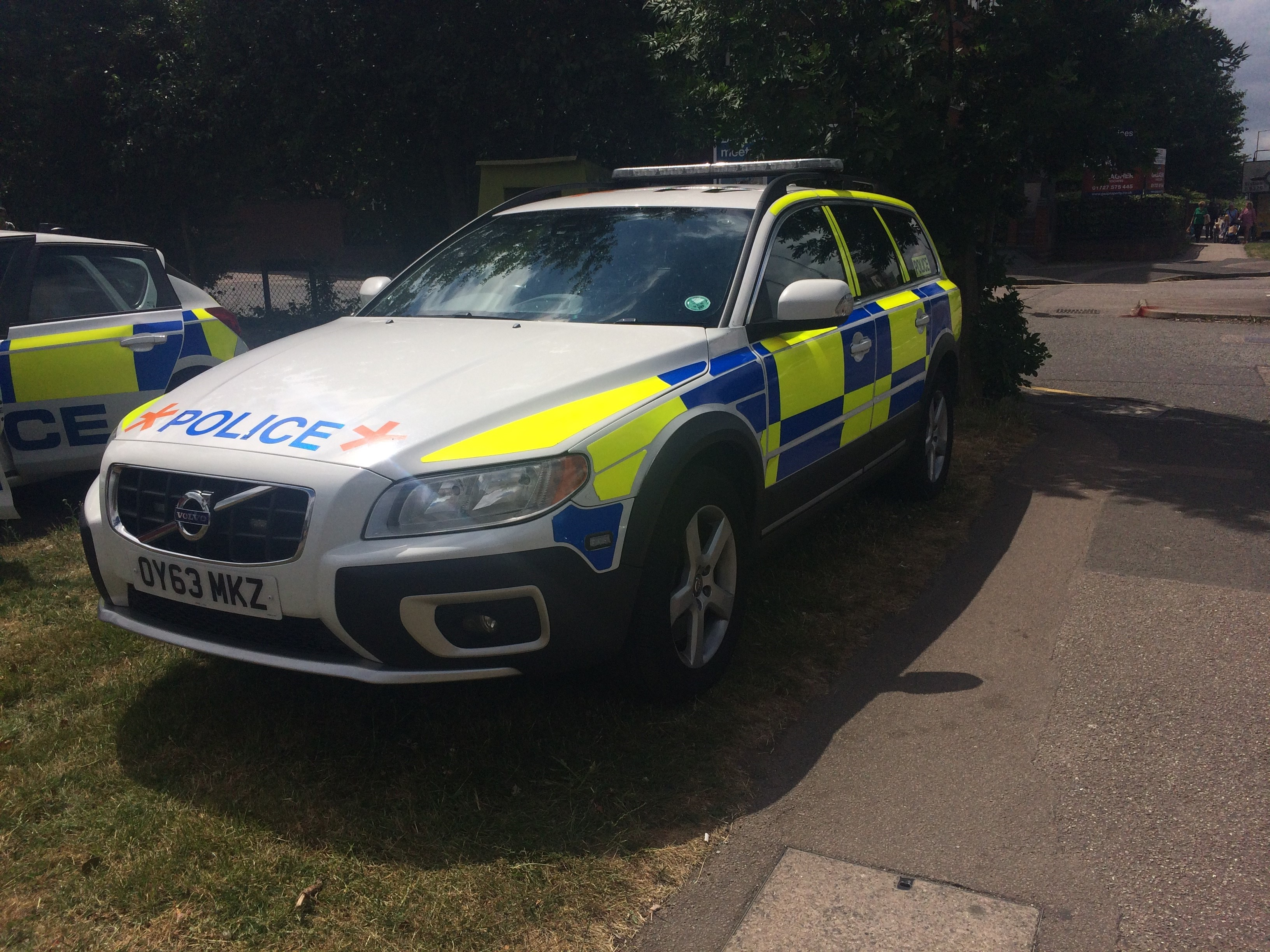 A Hertfordshire Armed Response Vehicle